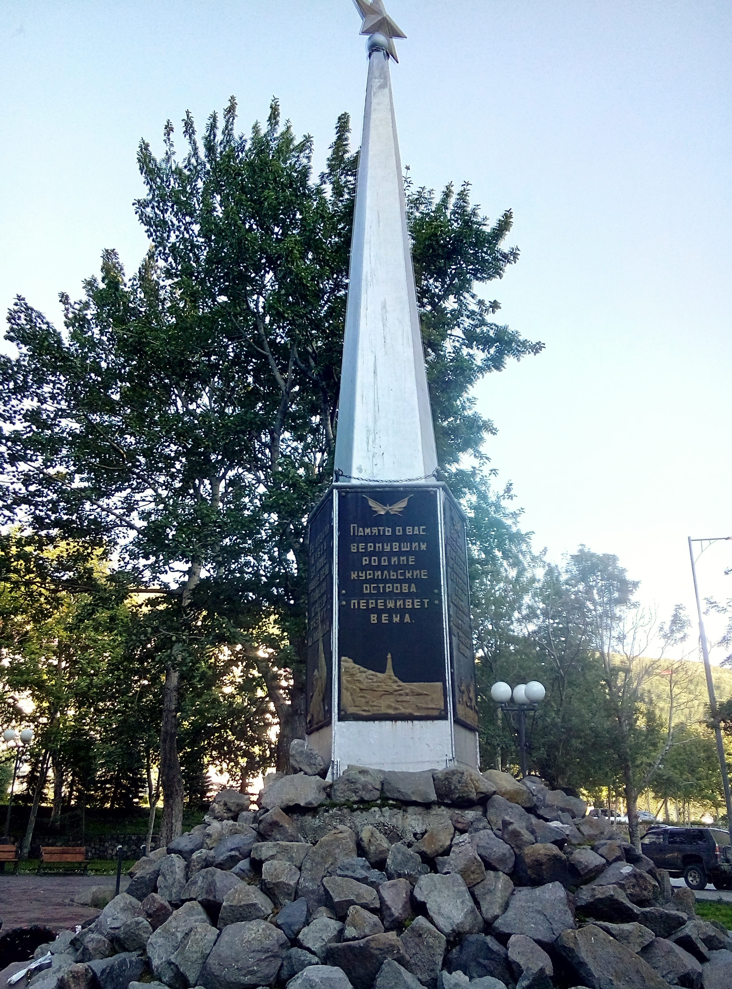 Петропавловск-Камчатский, Россия